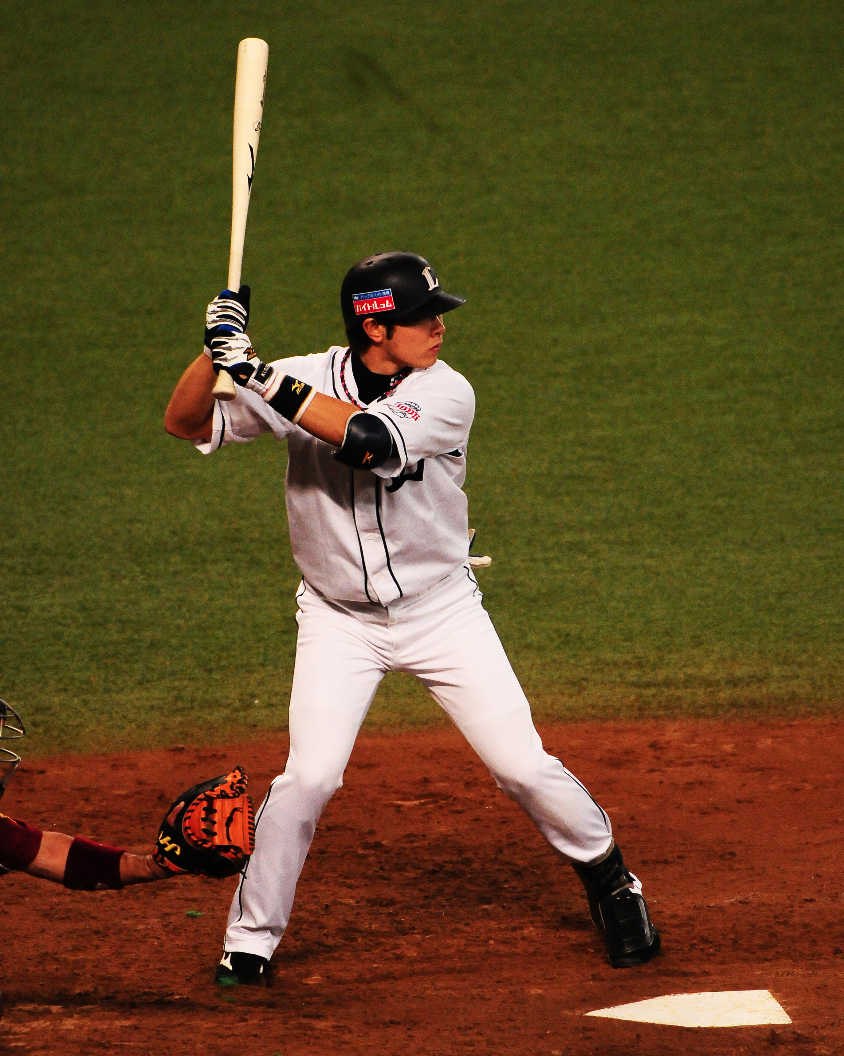 TOKOROZAWA, Japan -- Haruki Kurose, Saitama Seibu Lions infielder, stands in against the Tohoku Rakuten Golden Eagles July 14 in Japanese Baseball League action at the Seibu Dome. The Musashimurayama Yokota Friendship Club treated members of the 374th Operations Group to the game. The club hosts several events throughout the year to strengthen the relationship between the two communities (U.S. Air Force photo/Airman 1st Class Sean Martin)